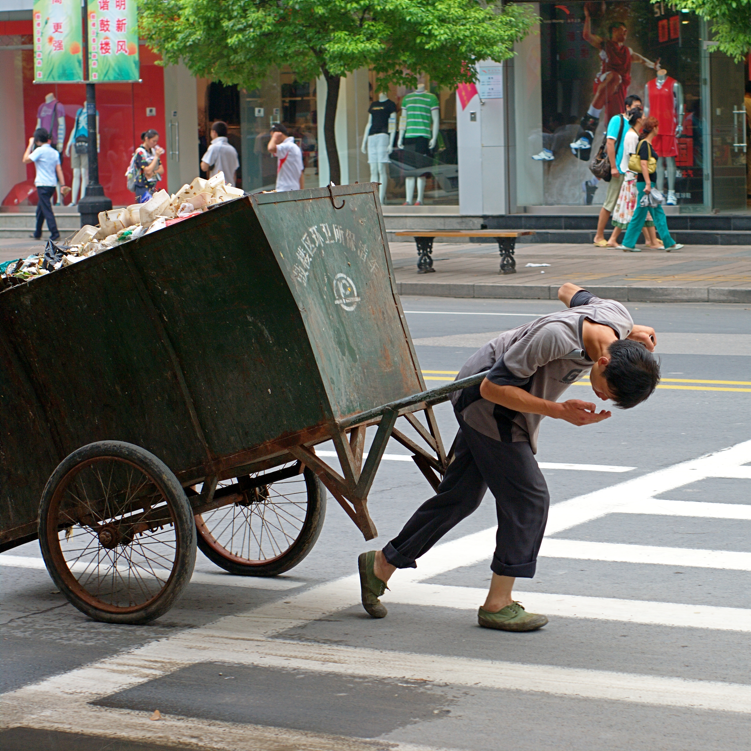 A man toiling pulling a cart with garbage inside. Nanjing, China.